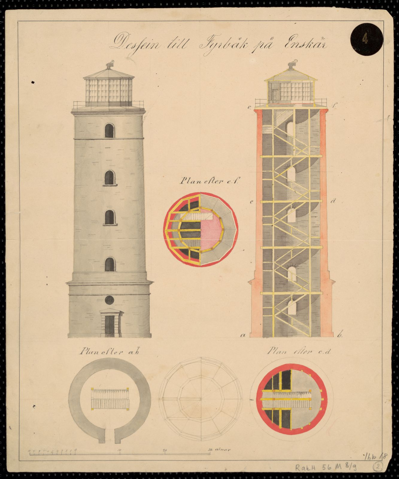 Records creator: Rakennushallitus. Rakennushallituksen piirustukset II (kokoelma). RakH II Ihb. 18:/- -.2-3. [Enskär, majakka].